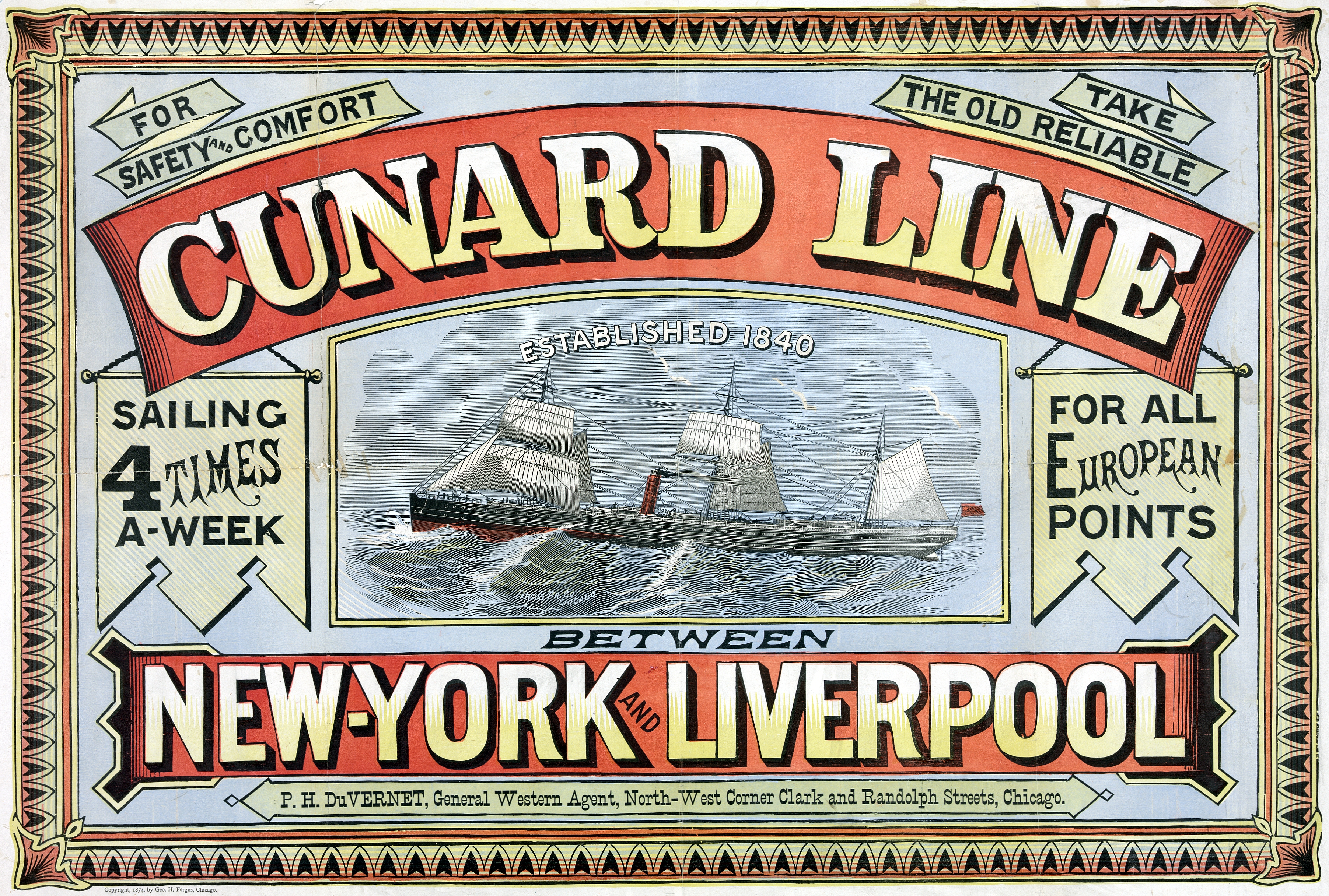 Cunard Line poster. "For safety and comfort take the old reliable Cunard Line. Established 1840. Sailing 4 times a week. For all European points. Between New York and Liverpool. P.H. Du Vernet, General Western Agent, North West Corner Clark and Randolph Streets, Chicago."